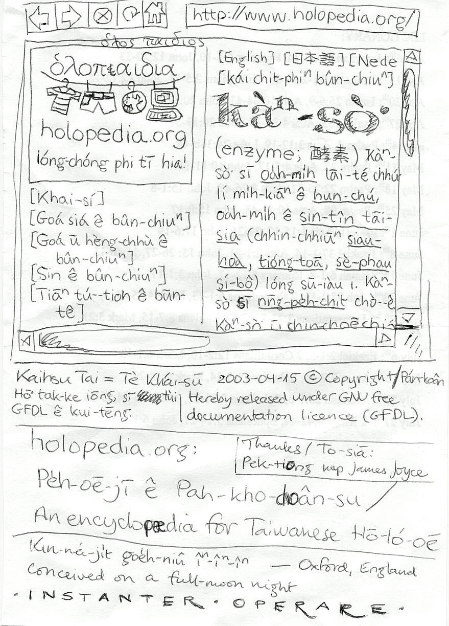 Holopedia (Min Nan Wikipedia) original idea, 2003-04-15.